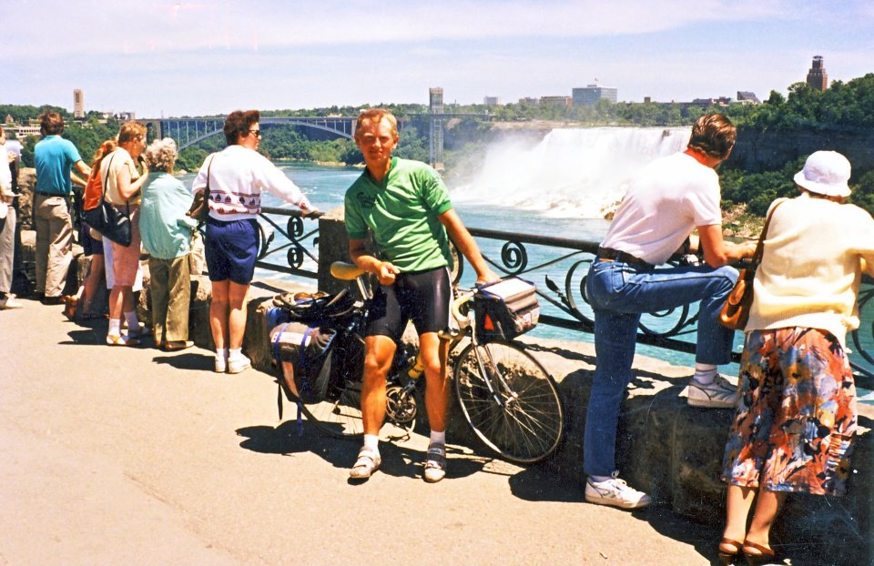 Person, travelling picture from USA